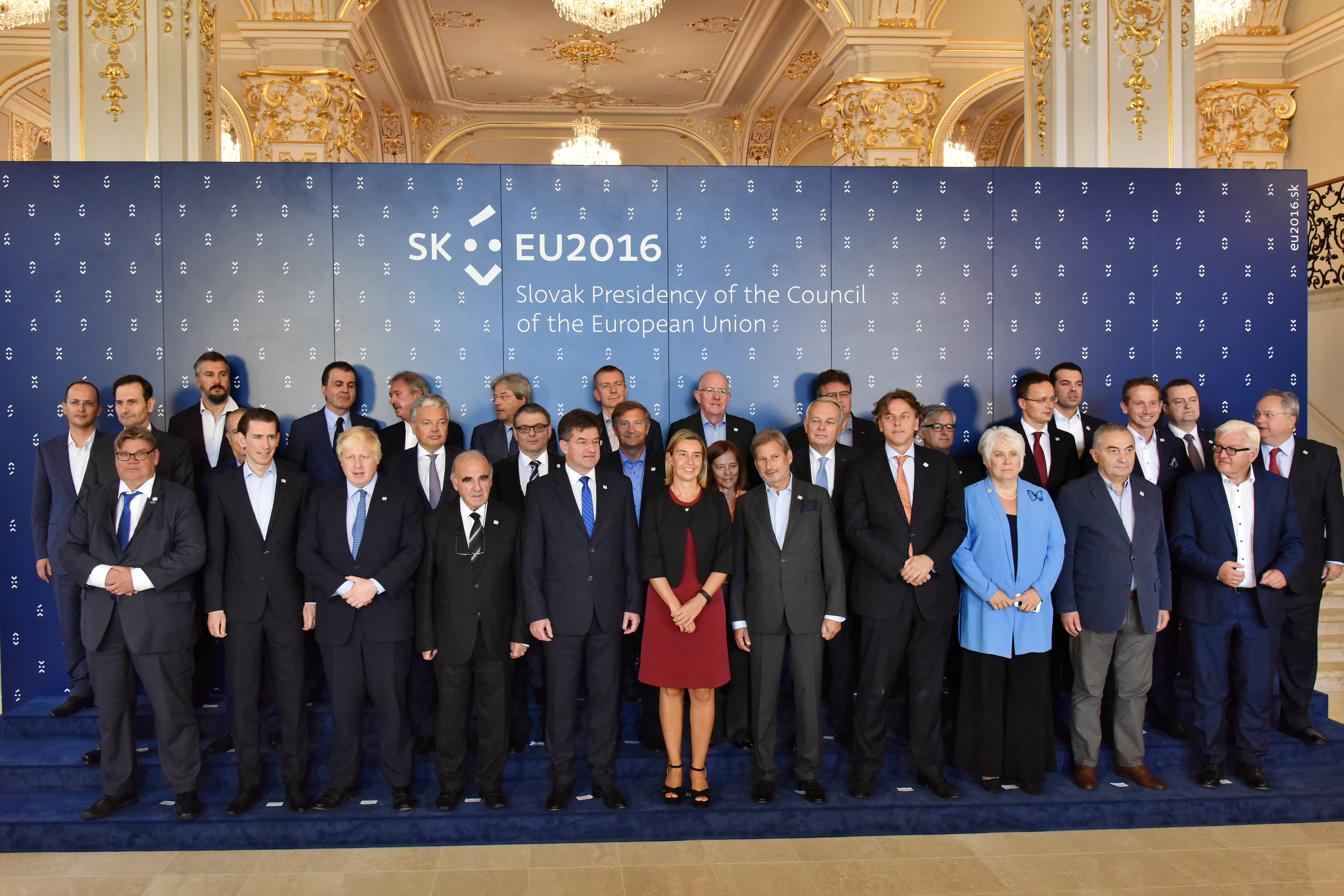 Informal Meeting of Foreign Affairs MInisters - GYMNICH ph halime sarrag